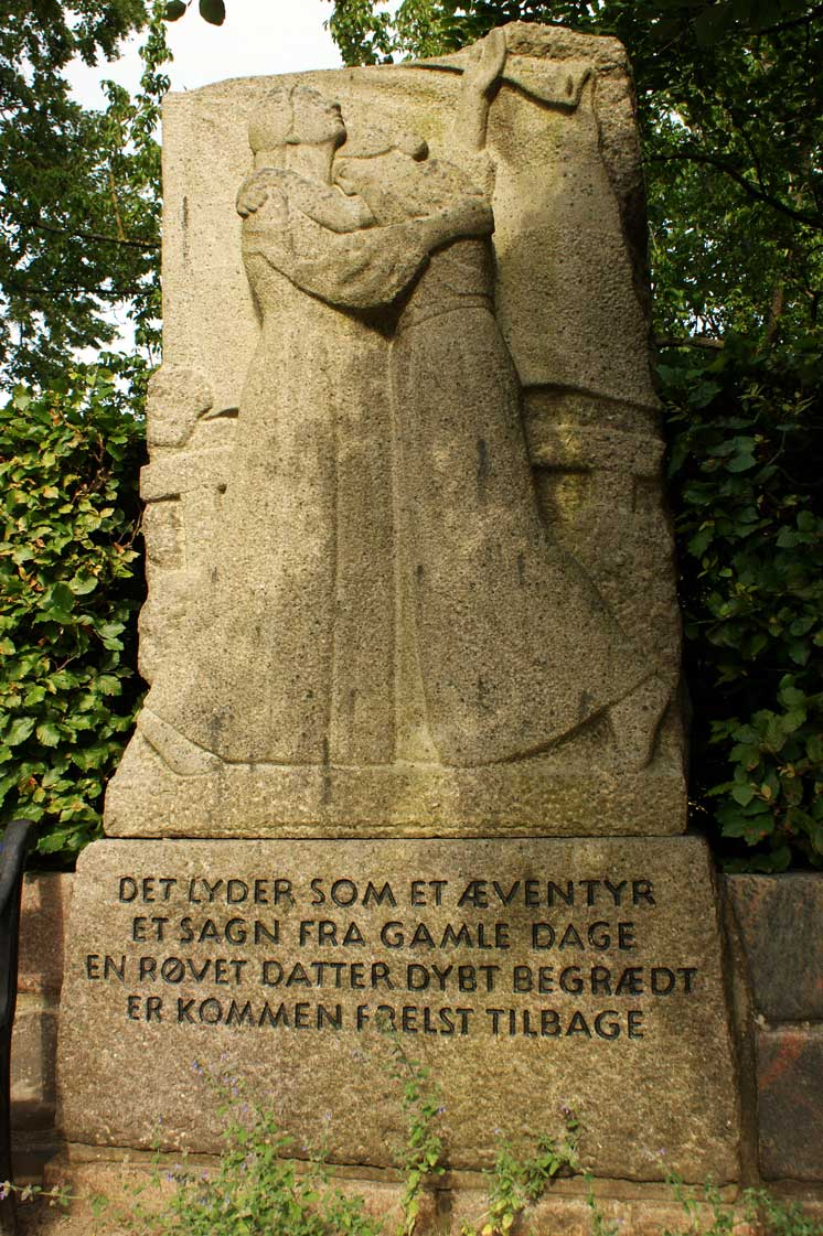 Memorial stone in Haderslev Denmark